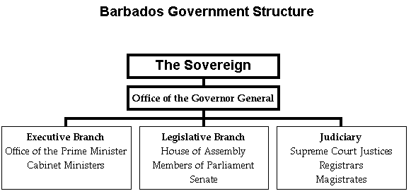 A simplified diagram of the Barbados government. The branches of Government, the Vice-Royal, and Monarch as official Head of State.